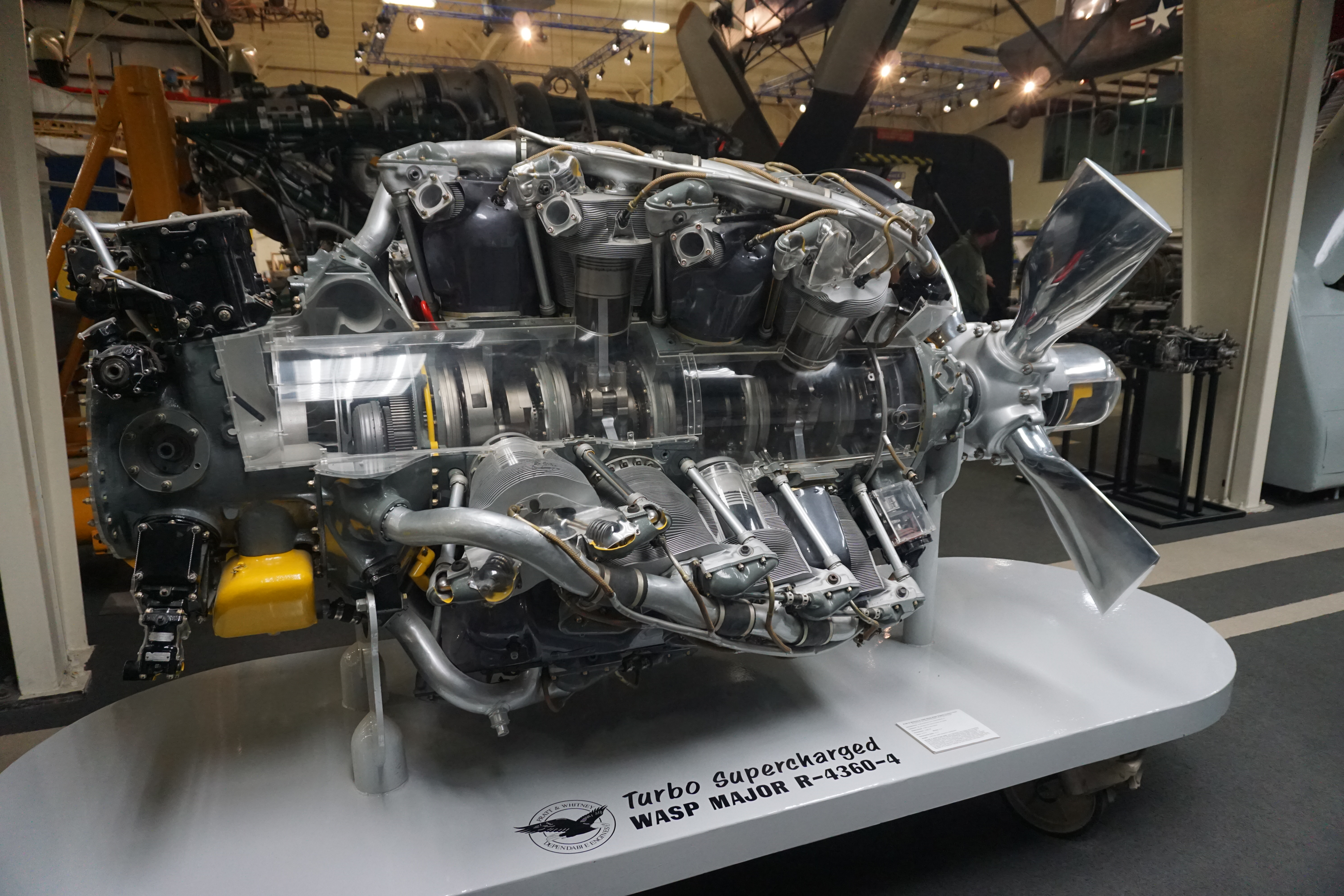 A Pratt & Whitney R-4360-4 Wasp Major on display at the Air Zoo at Kalamazoo/Battle Creek International Airport in Portage, Michigan (United States).